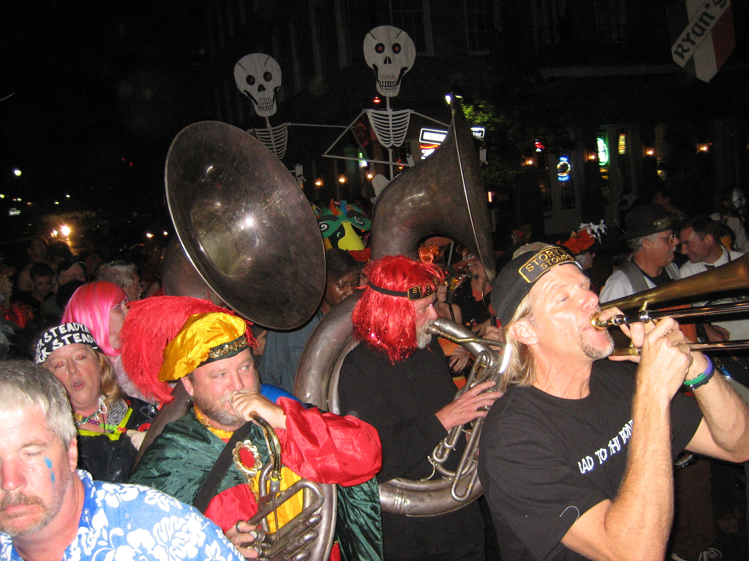 New Orleans French Quarter, Halloween 2005: Brass band consisting of the Storyville Stompers plus guests plays for parade; revelers and skeleton effigies in background.